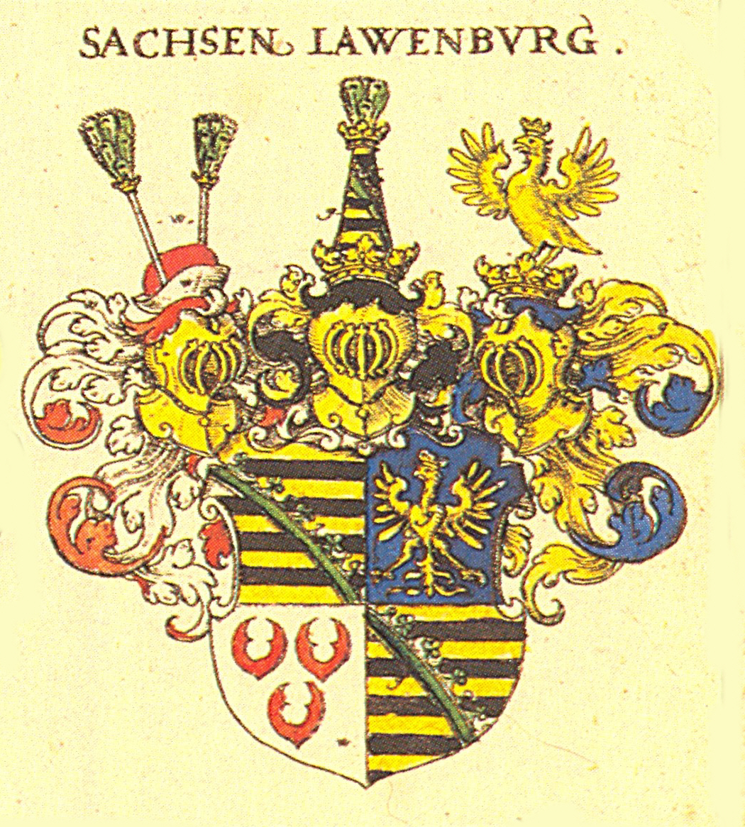 The coat of arms of Duchy of Saxony, Angria and Westphalia (Lauenburg) as used between 1507 and 1671. It shows in the upper left quarter the Ascanian barry of ten, in or and sable, covered by a crancelin of rhombs (they are not shown in this undetailed copy) bendwise in vert.[1] The crancelin symbolises the Saxon ducal crown. The second quarter shows in azure an eagle crowned in or, representing the imperial Pfalzgraviate of Saxony. The third quarter displays in argent three water-lily leaves in gules, standing for the County of Brehna. The lower right fourth quarter repeats the first quarter. The Lauenburg branch duchy adopted this coat-of-arms, altering the one used before by replacing its fourth quarter by reduplicating the first. Before the fourth quarter showed in sable and argent the electoral swords (Kurschwerter) in gules, indicating the Saxon office as Imperial Arch-Marshal (German:Erzmarschall, Latin:Archimarescallus), pertaining to the Saxon privilege as prince-elector, besides the right to elect a new emperor after the decease of the former. The electoral privilege was lost to Saxe-Wittenberg in 1356, but always claimed by Saxe-Lauenburg and reinforced at Saxe-Wittenberg's extinction, however, in vain. But until 1507, when Duke Magnus I ascended the throne, the claim was also upheld by showing the electoral swords in the coat-of-arms. The different quarters of the coat of arms, from then on representing the Duchy of Saxony, Angria and Westphalia (Lauenburg), were later often misinterpreted as symbolising Angria (Brehna's water-lily leaves) and Westphalia (the comital palatine Saxon eagle).